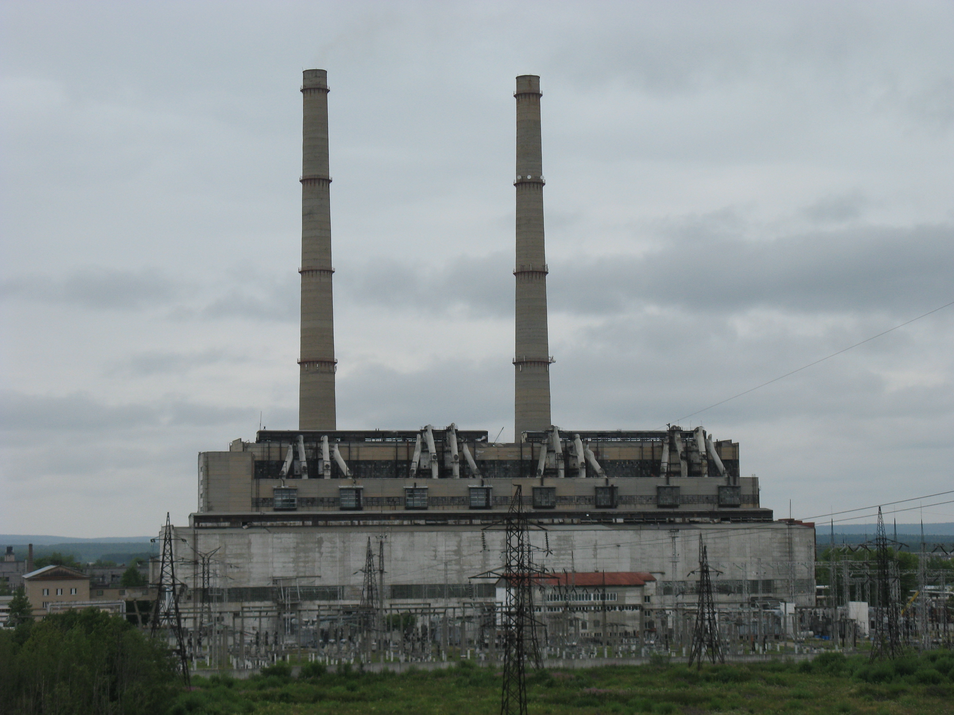 Thermal power station "Yayvinskaya GRES" in Yayva in Perm Krai